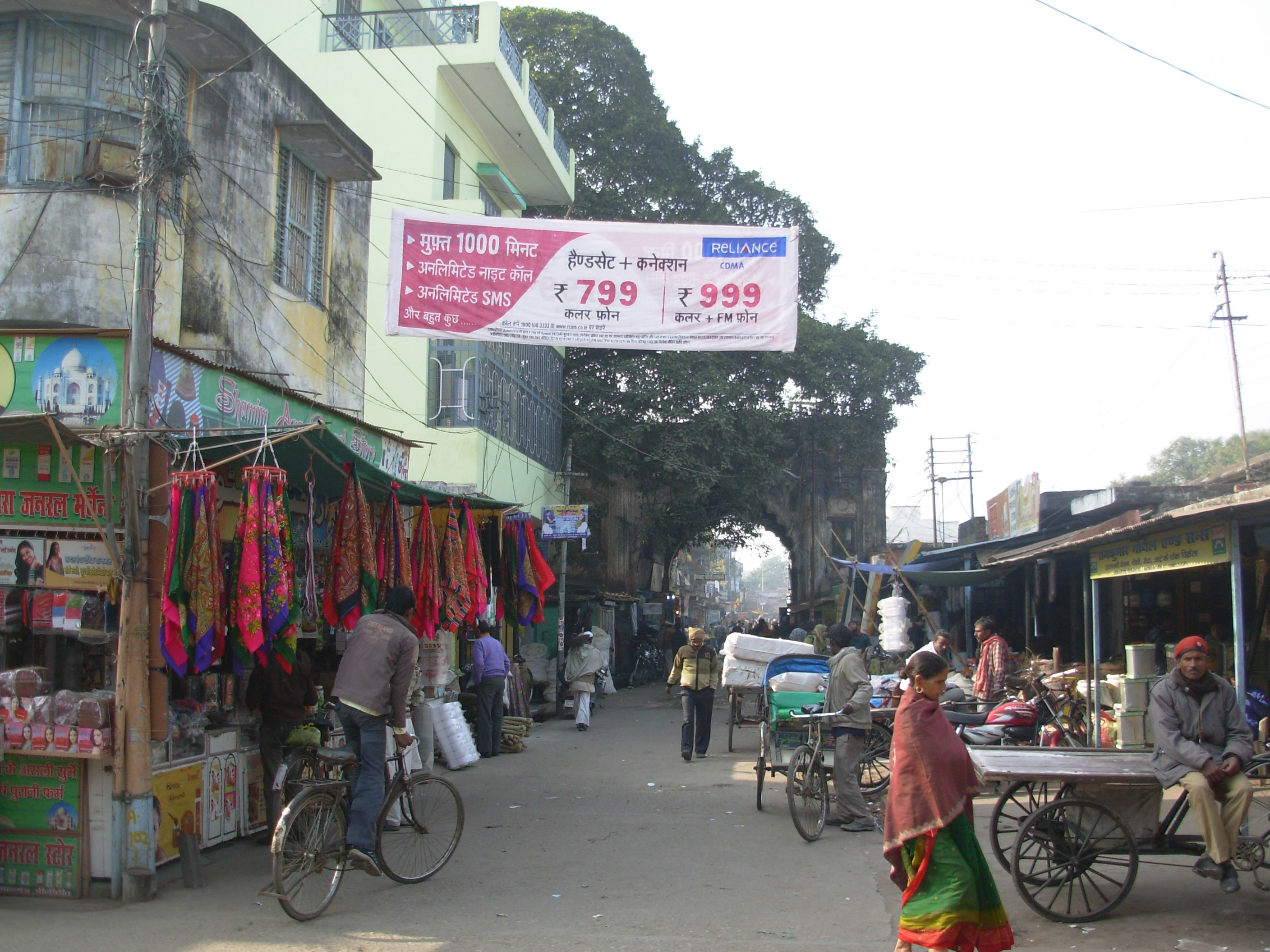 Jahanabadi darwaza in the backdrop, In Pilibhit Main Market.